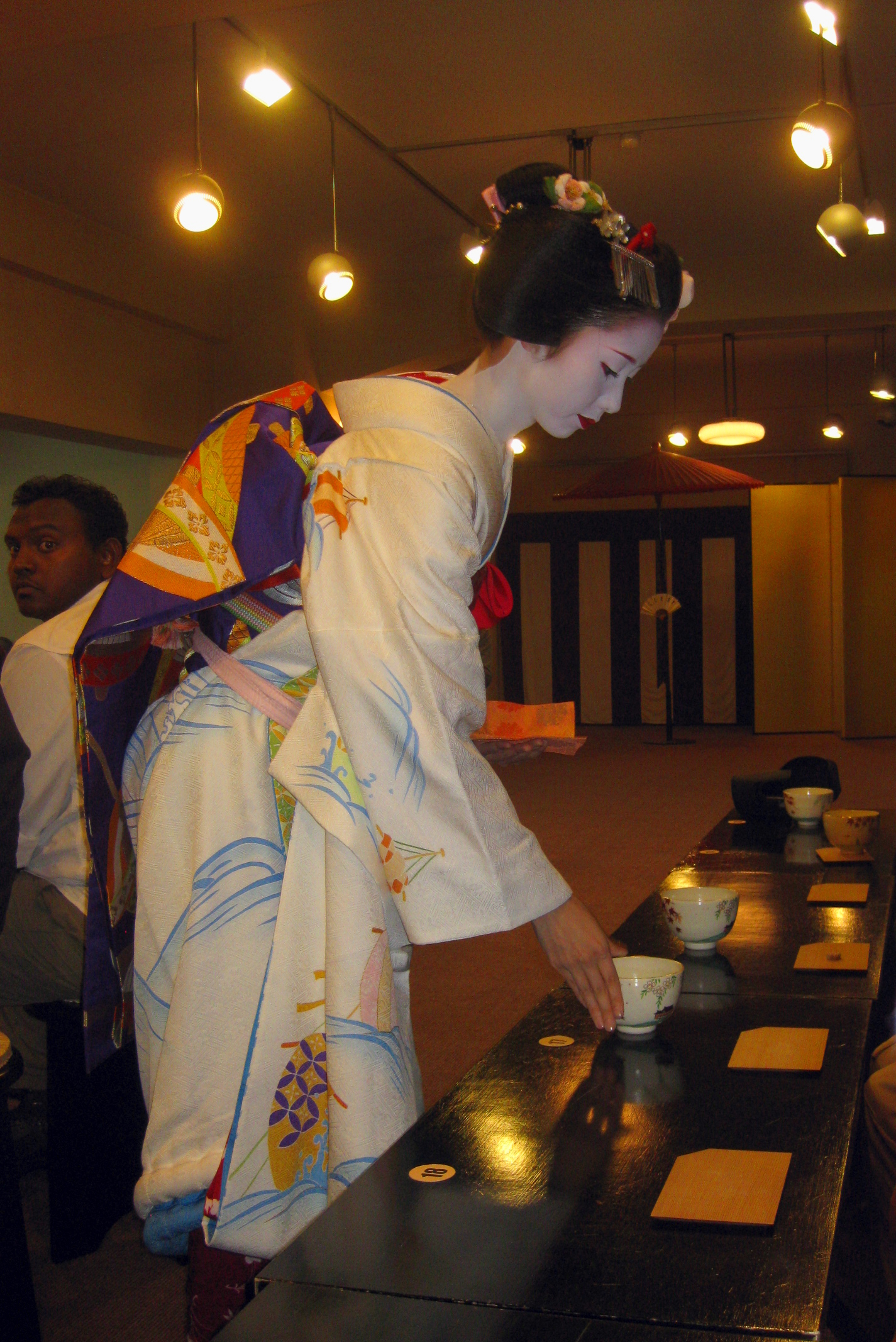 Maiko Mamehana preparing teacups during a tea party in Gion.